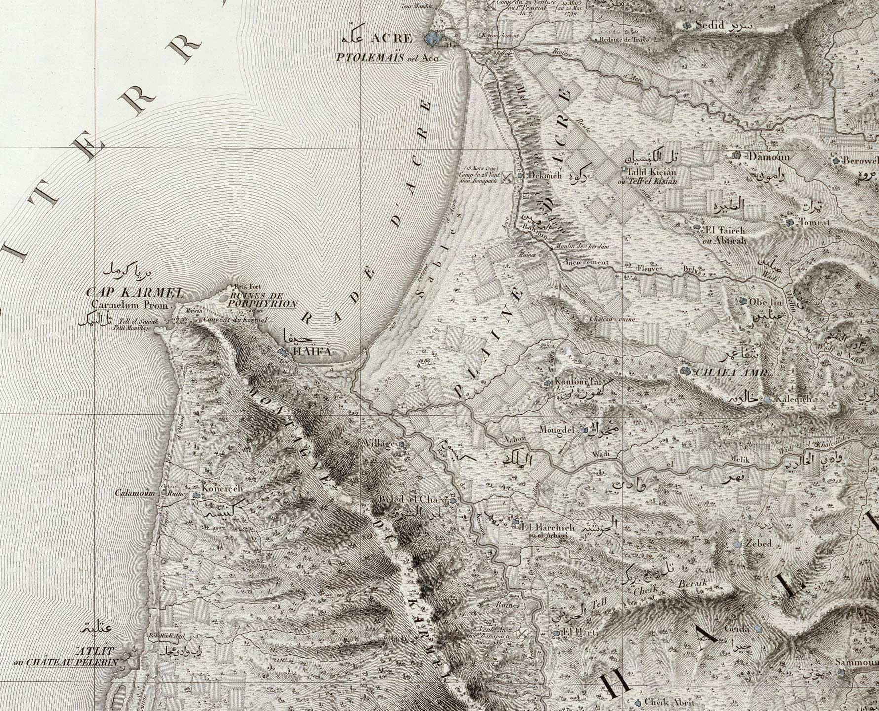 Portion of map of Pierre Jacotin of northern Palestine, prepared during French military expedition of 1799 and published in 1826. Full name: Carte topographique de l'Egypte et de plusieurs parties des pays limitrophes ... . David Rumsey Collection